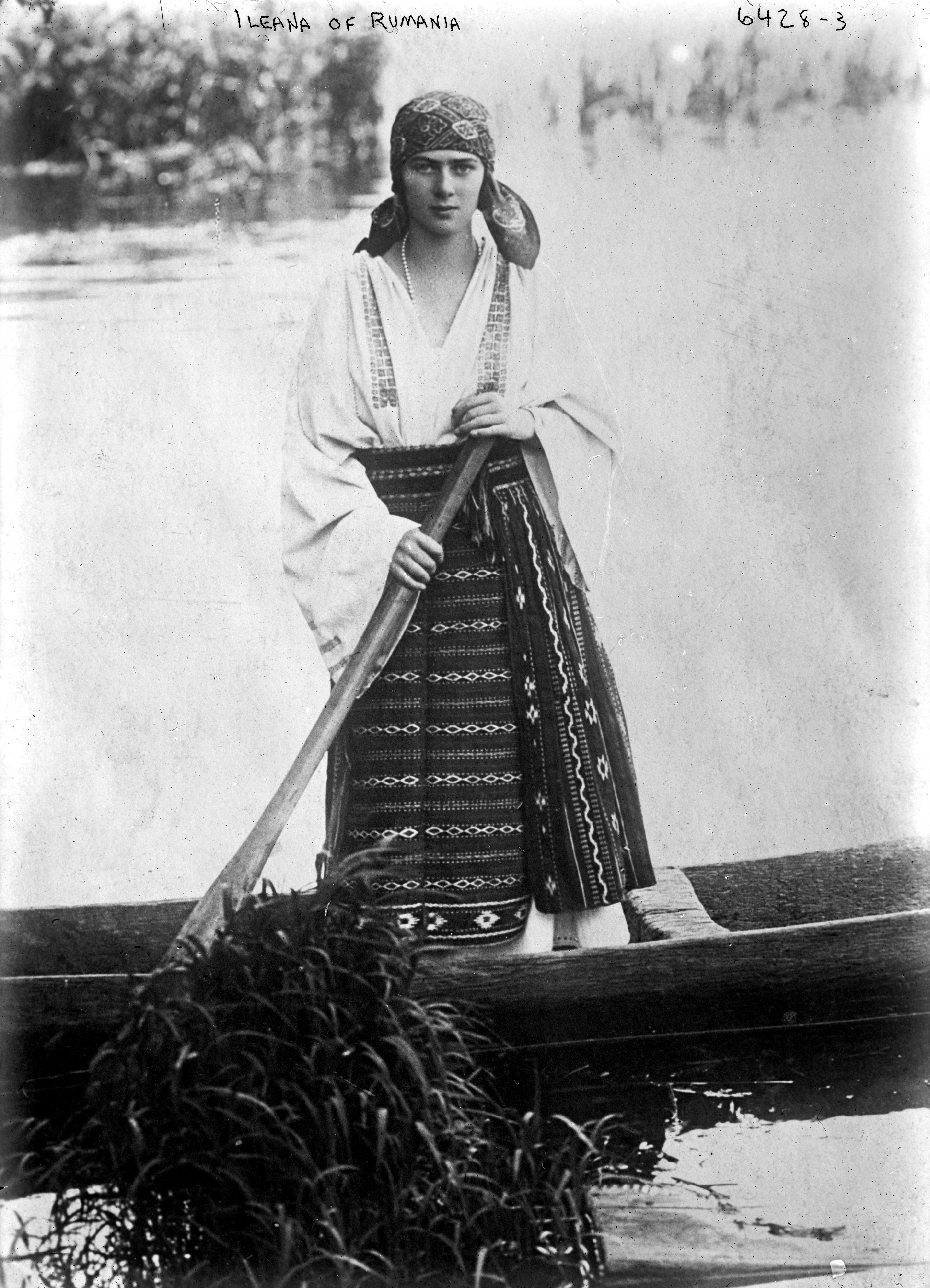 TITLE: Ileana of Rumania CALL NUMBER: LC-B2- 6428-3[P&P] REPRODUCTION NUMBER: LC-DIG-ggbain-38599 (digital file from original negative) No known restrictions on publication. MEDIUM: 1 negative : glass ; 5 x 7 in. or smaller. CREATED/PUBLISHED: [no date recorded on caption card] NOTES: Title from unverified data provided by the Bain News Service on the negatives or caption cards. Forms part of: George Grantham Bain Collection (Library of Congress). Temp. note: Batch eight loaded.